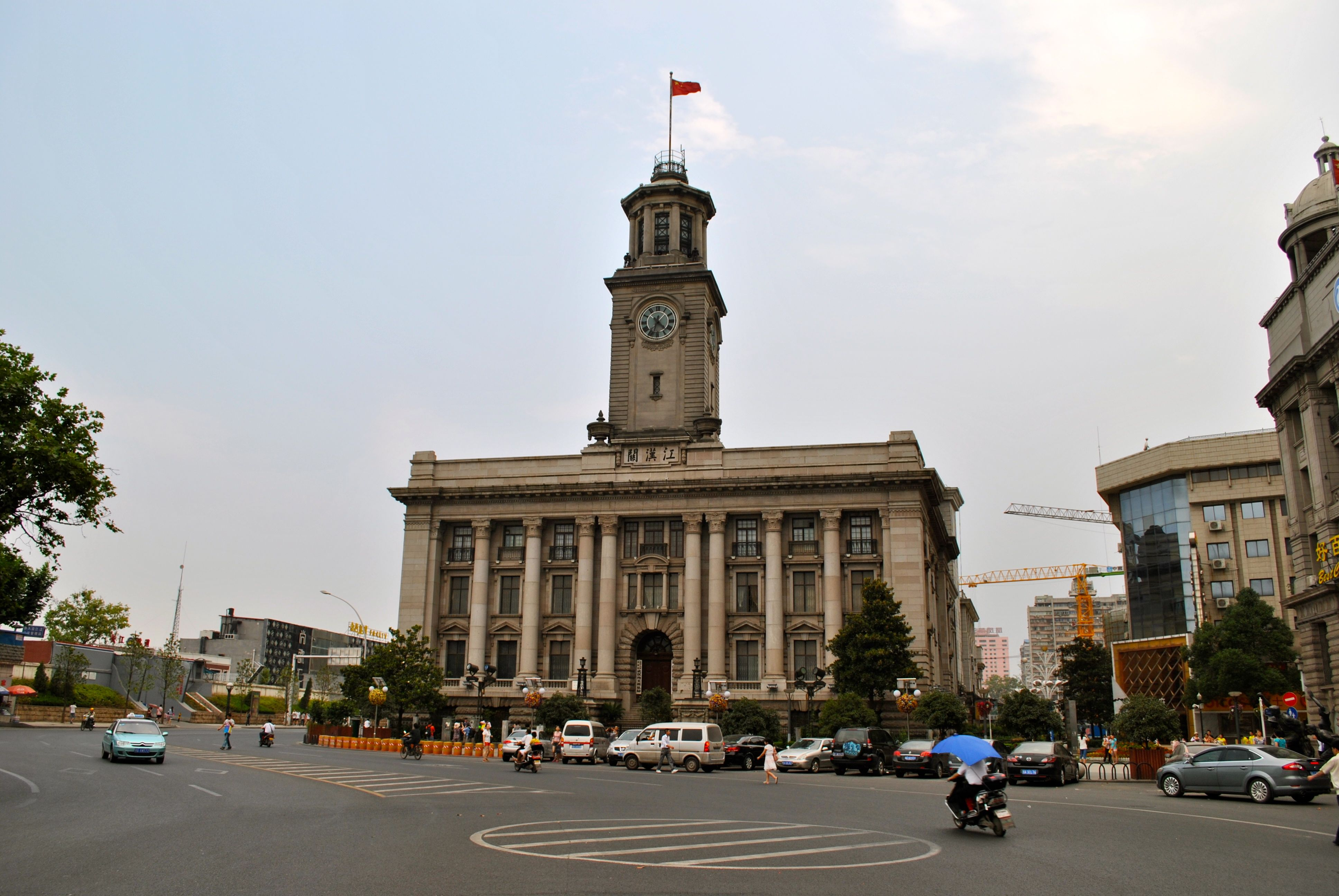 Hankow Customs House Museum